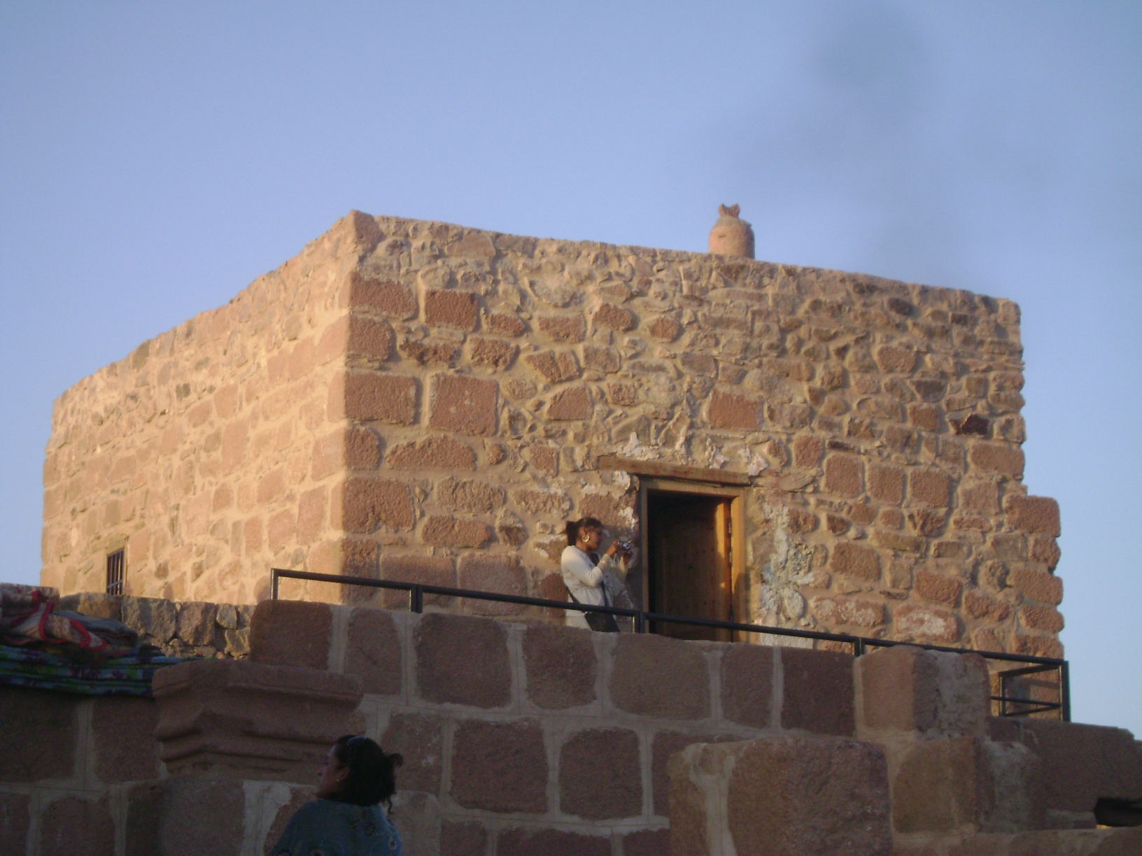 Mosque on Mount Sinai, prayed in myself